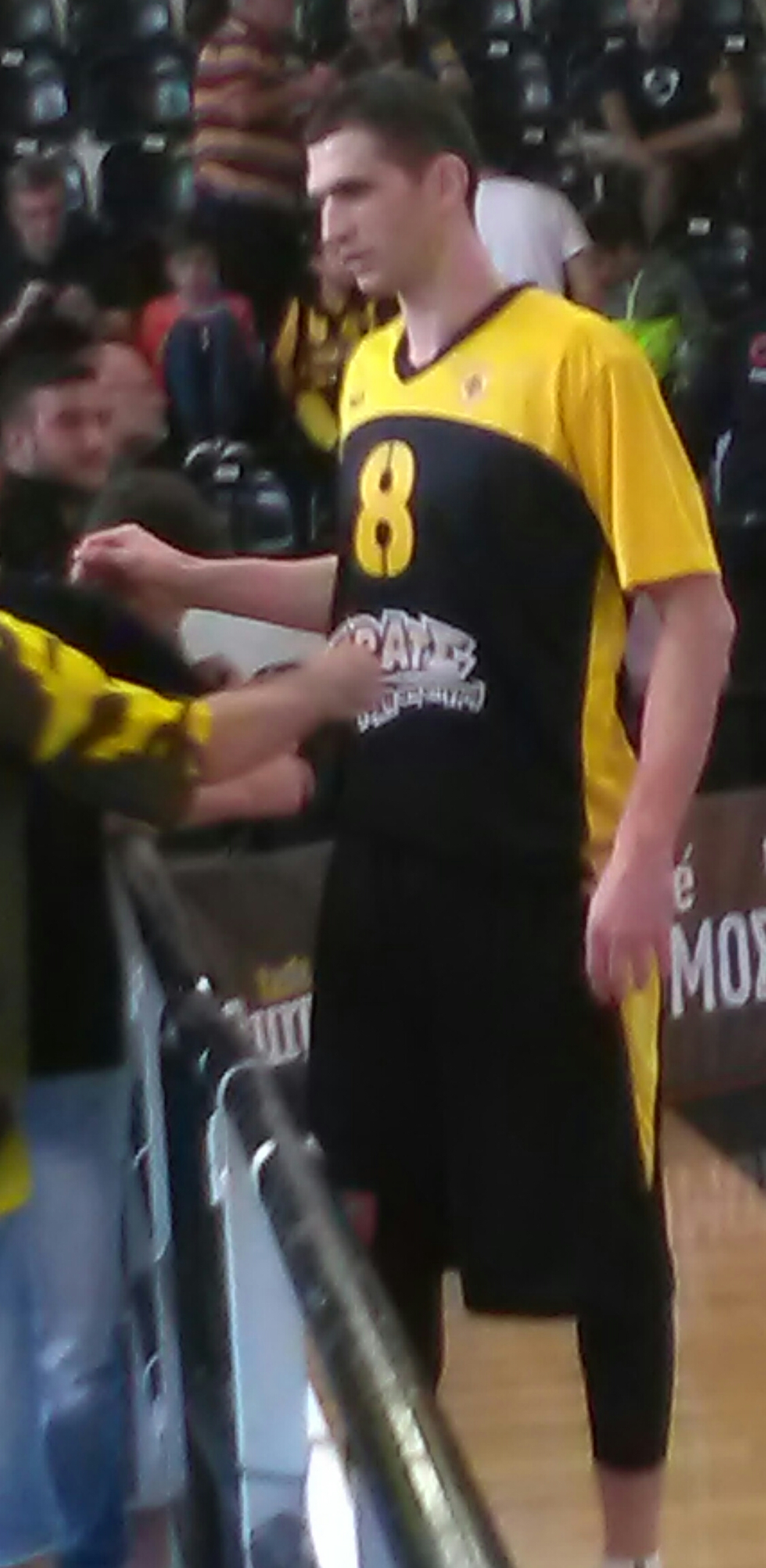 Milan Milosevic